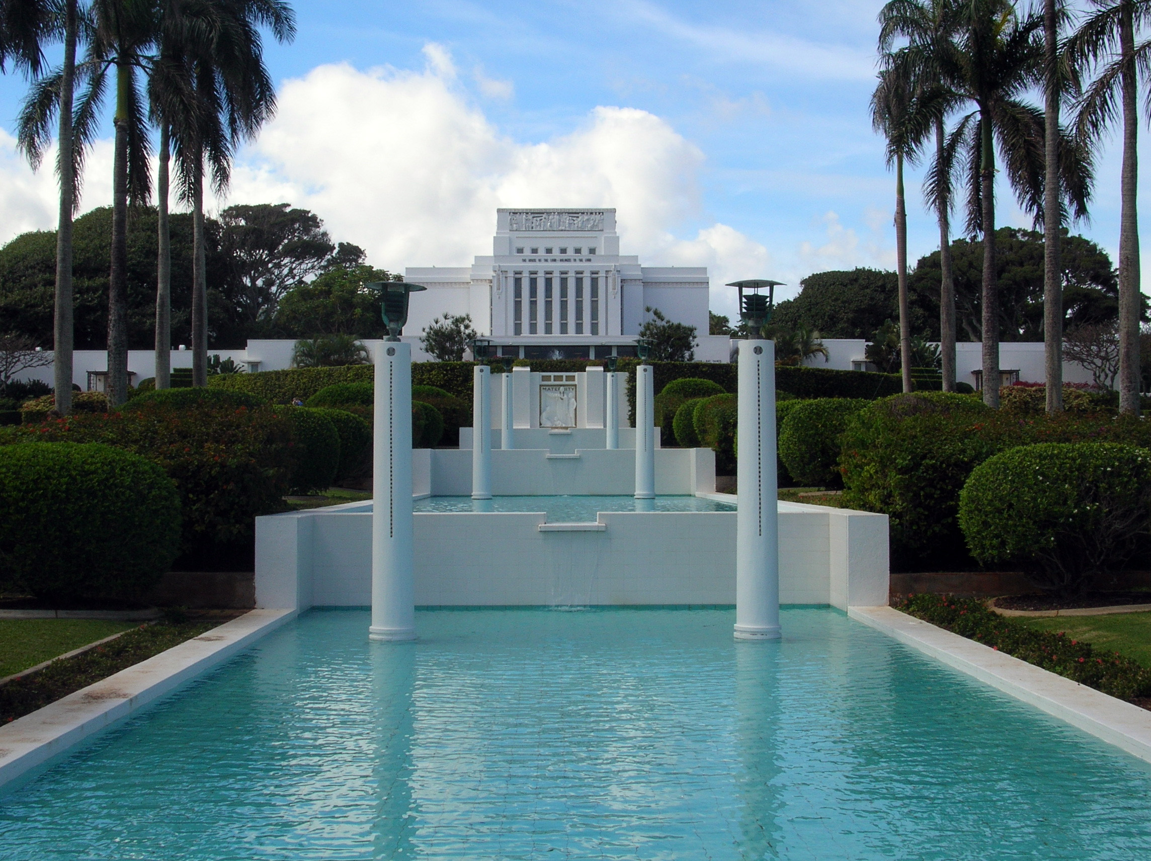 Photographer: myself, Gh5046 A photo of the Laie Hawaii Temple taken 2005/01/16 in Lā'ie, Hawai'i. Other than a possible "auto levels" being done, this photo is in its original state.